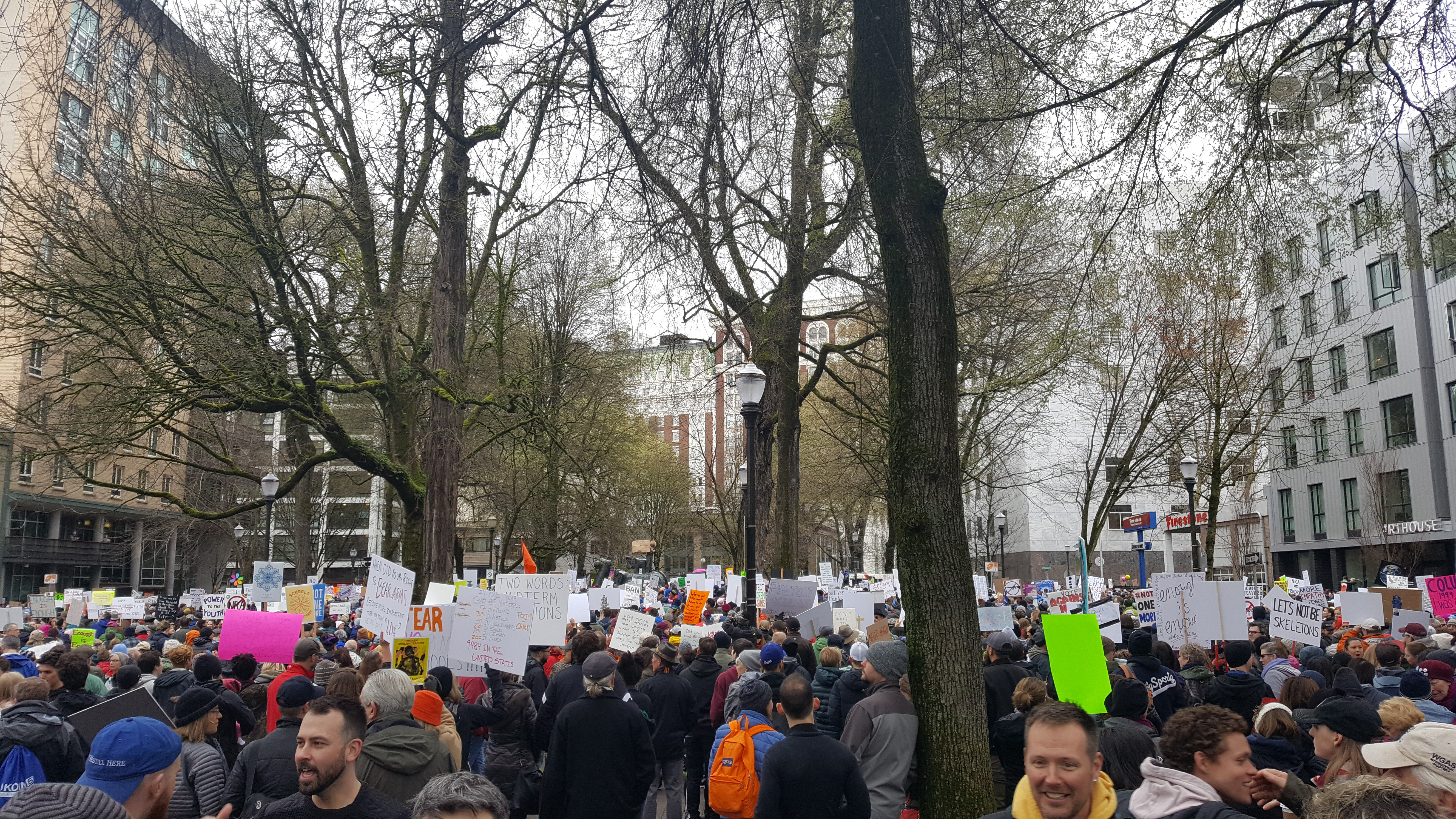 March for Our Lives